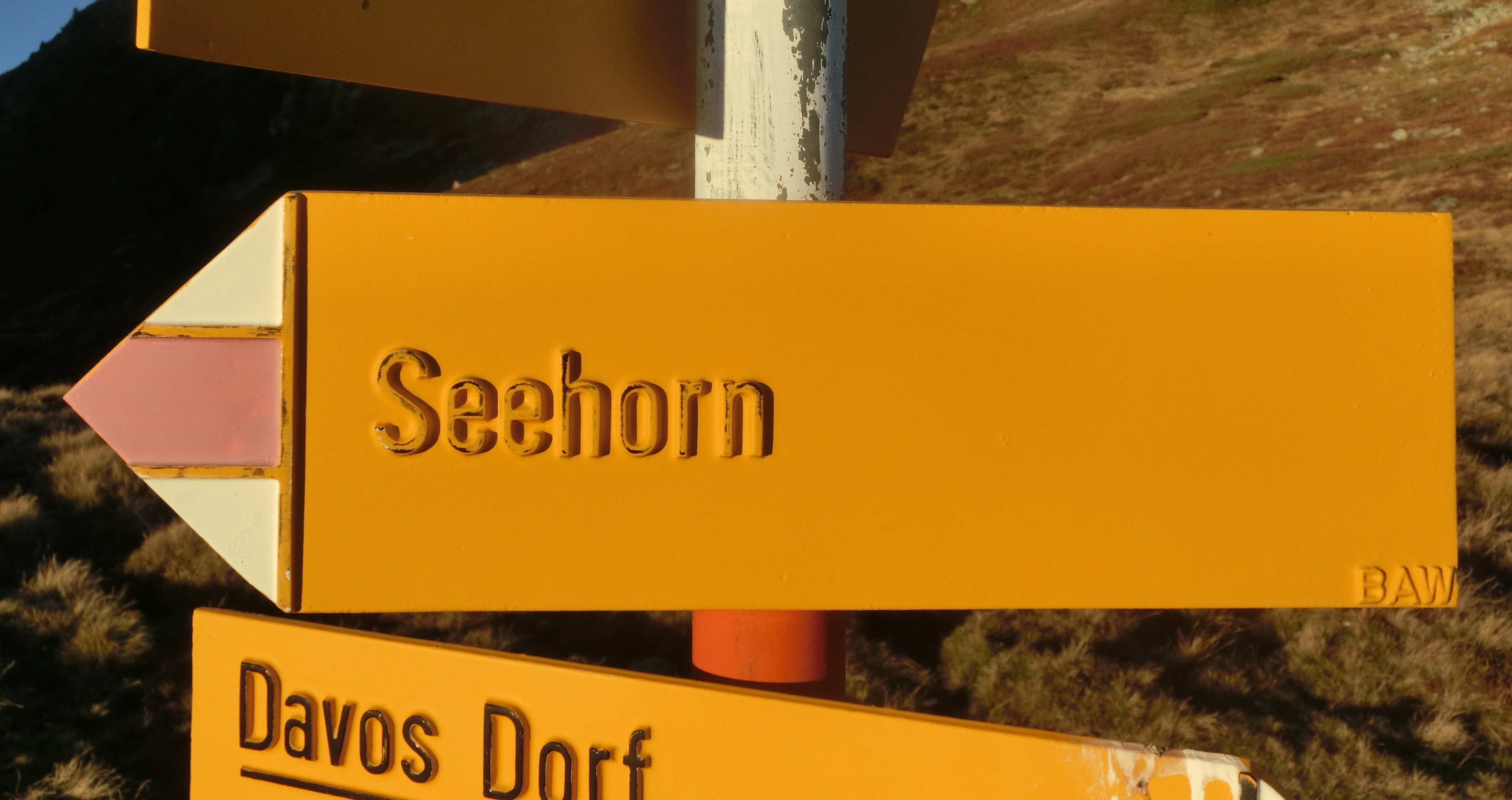 Fingerpoint below Seehorn, Davos, Grison, Switzerland